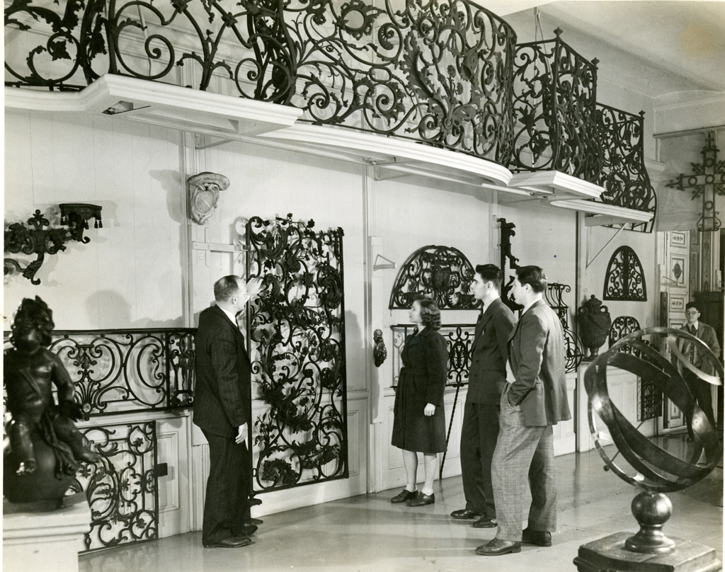 George G. Raddin of the Cooper Union Museum for the Arts of Decoration's Department of Humanities shows a class historic iron grillwork in the Metalwork Gallery. The Cooper Union Museum was transferred to the Smithsonian Institution on July 1, 1968, and was renamed the Cooper-Hewitt Museum of Design.